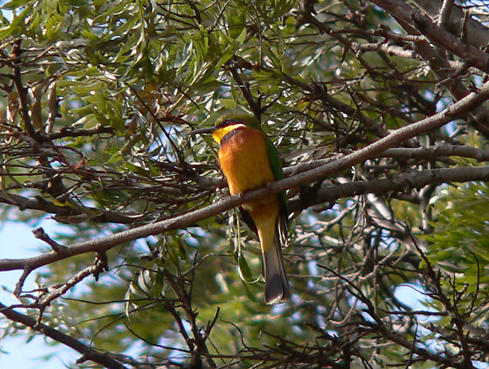 Merops oreobates This photo was taken by Christiaan Kooyman on 6 January 2006 in Nanyuki, Kenya.